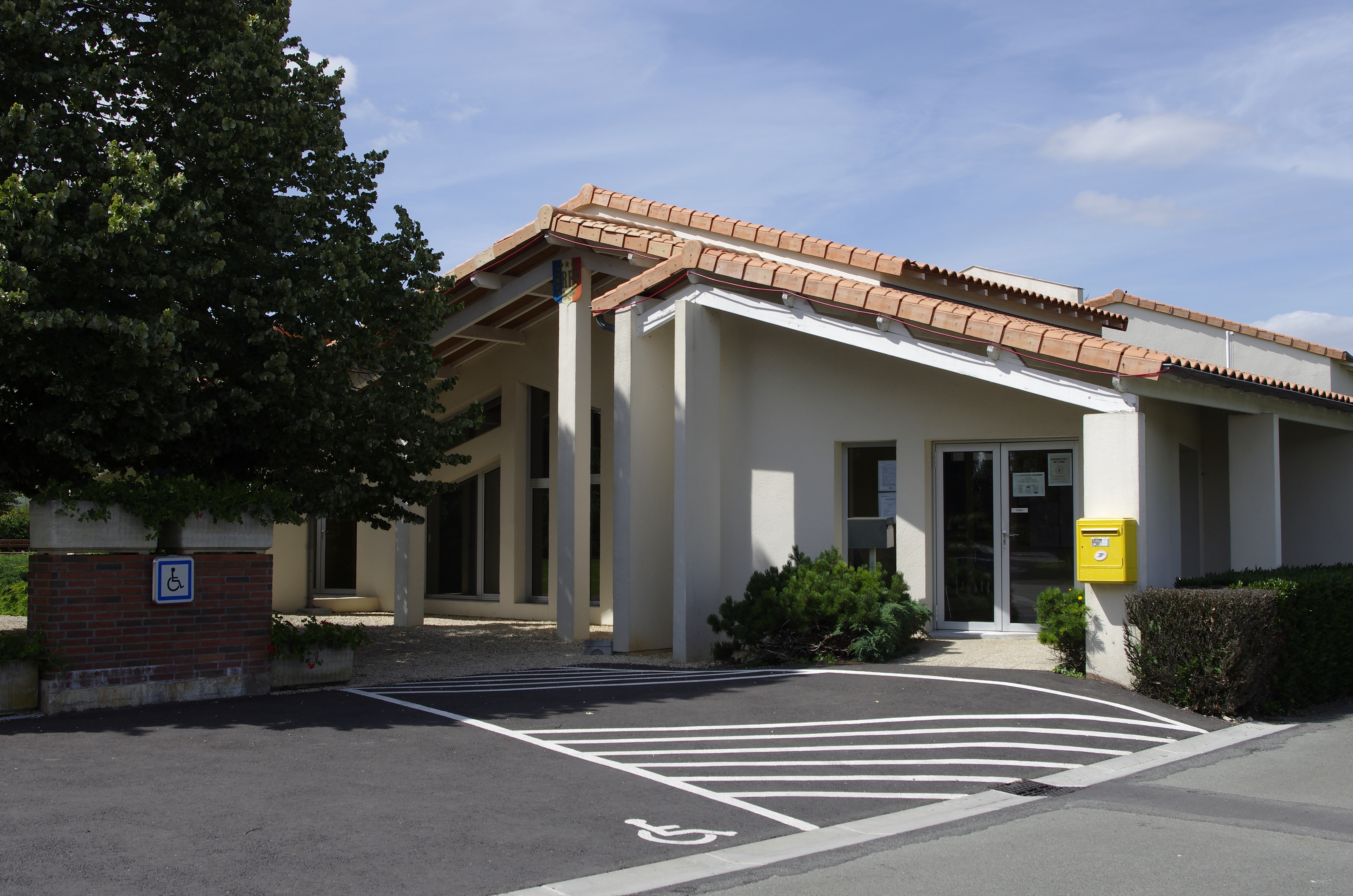 Townhall of Savigné, Vienne, France.